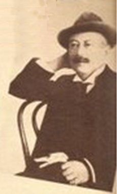 Artidorio Cresseri. Salta, Argentina. Folk musician and composer. Author of "La López Pereyra"